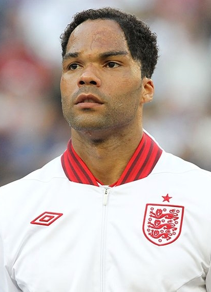 Joleon Lescott at the Euro 2012 match against France